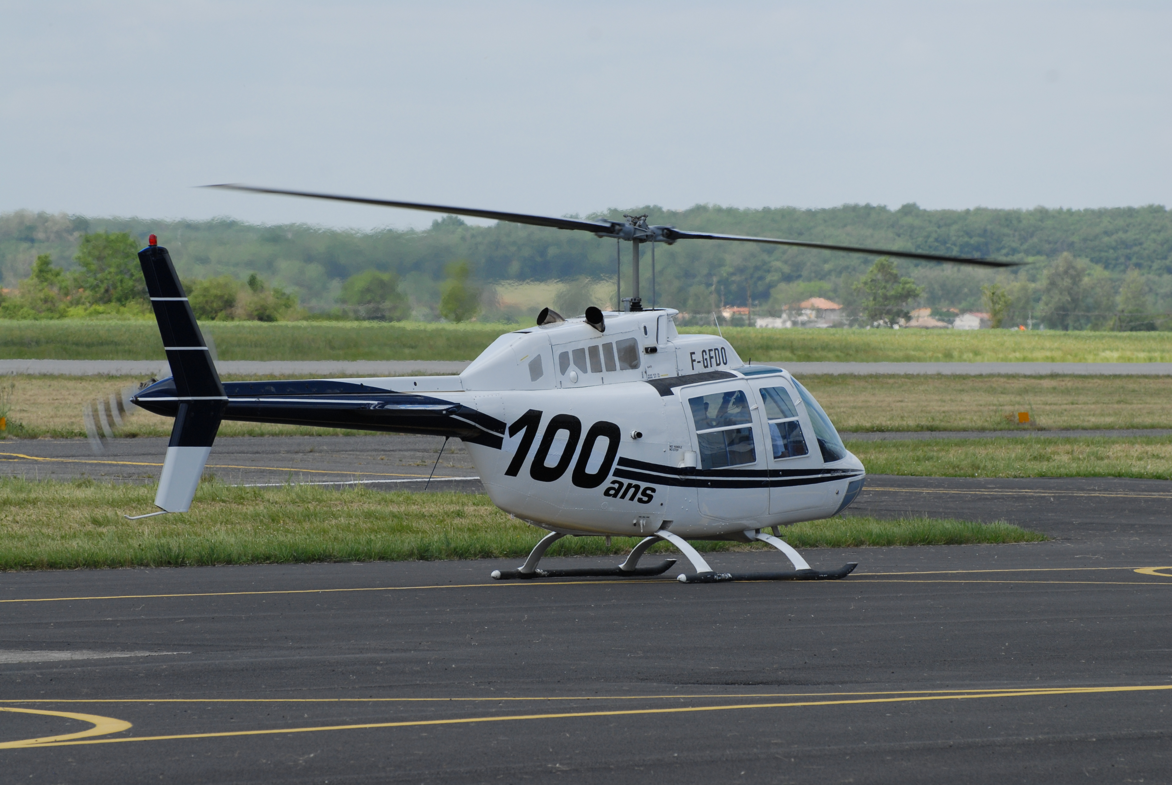 Bell 206B "JetRanger II" Manufacturer Bell Helicopter Textron (USA) Model Bell 206B "JetRanger II" Type Unknown Characteristics two-bladed main rotor, turbine powered, conventional two-bladed tail rotor Registration ID F-GFDO Owner Jetair S.A. Based in Toulouse Blagnac